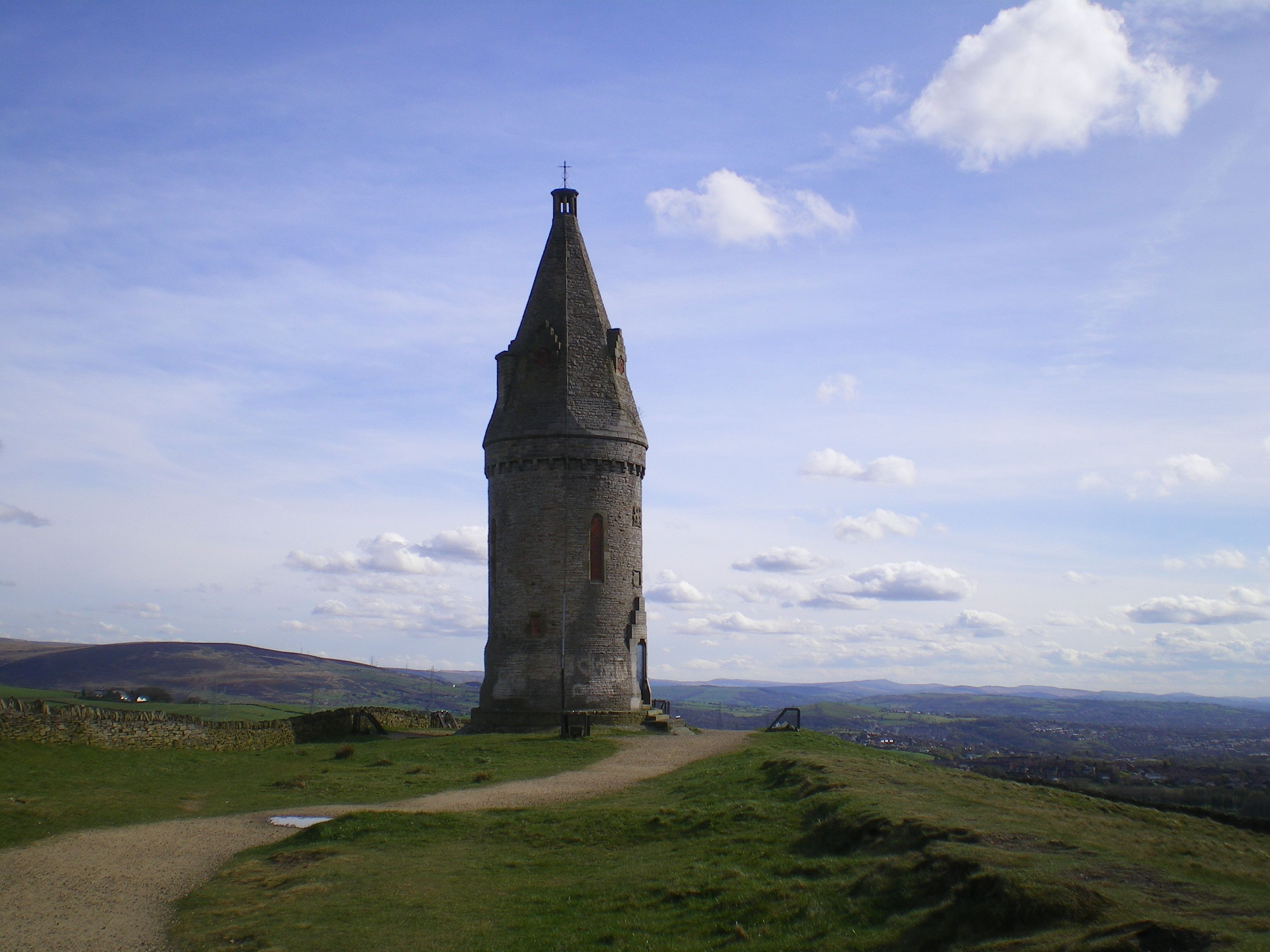 Hartshead Pike tower